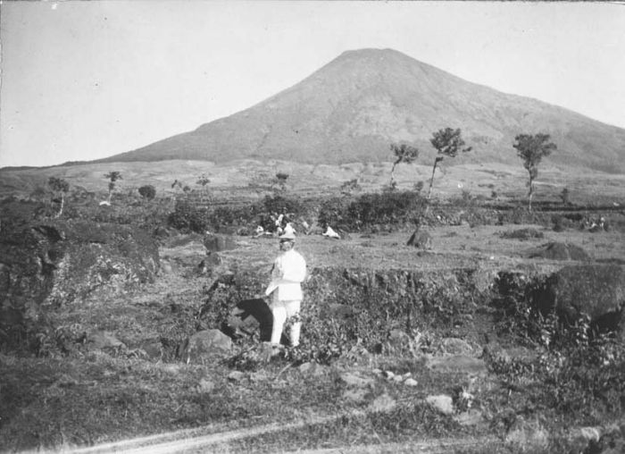 The gunung Sindoro at the Dieng Plateau